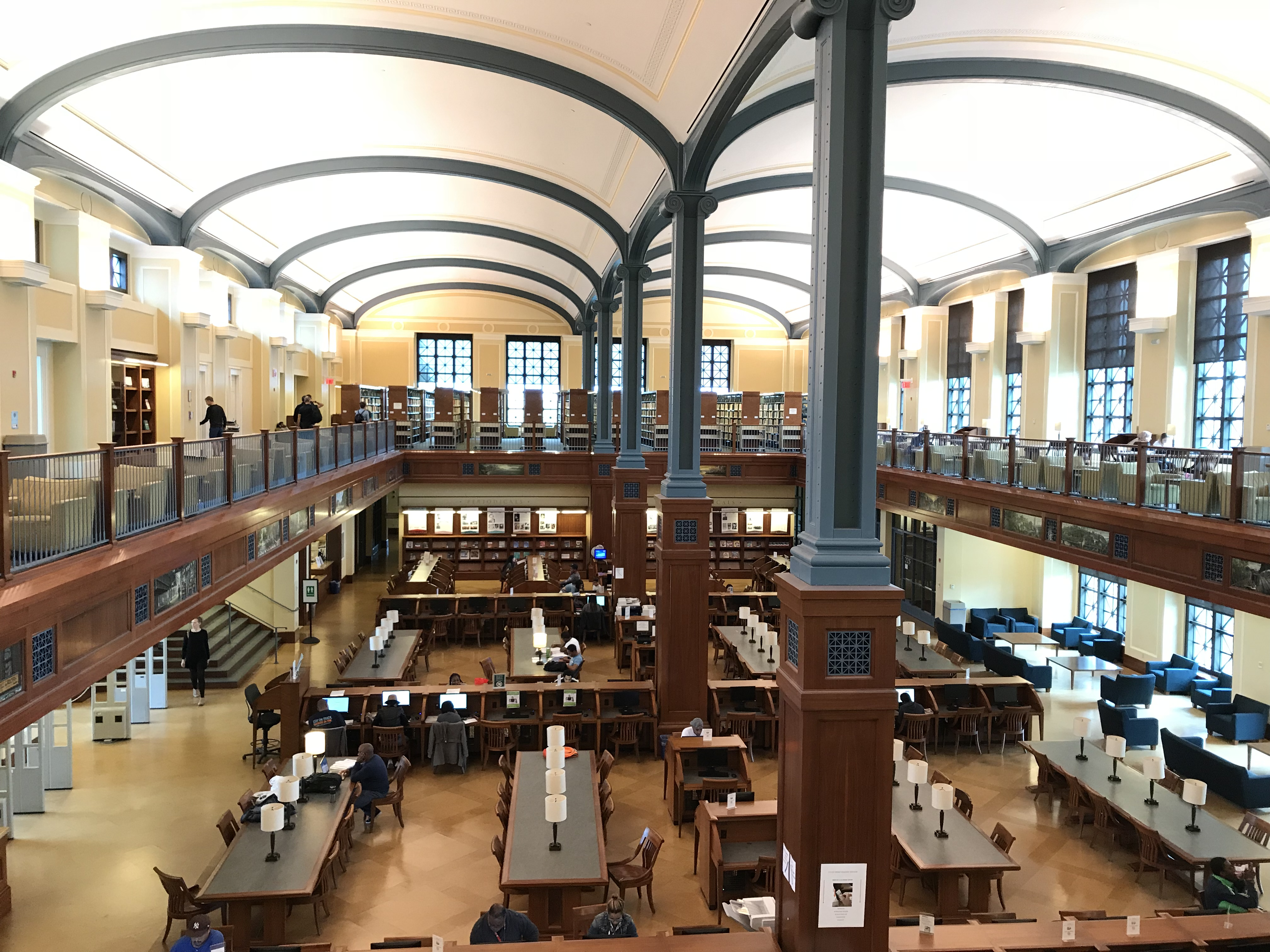 The library at North hall Is a beautifully designed space, just for books. It’s inviting and inspirational.Site: North Hall Library, Bronx community college